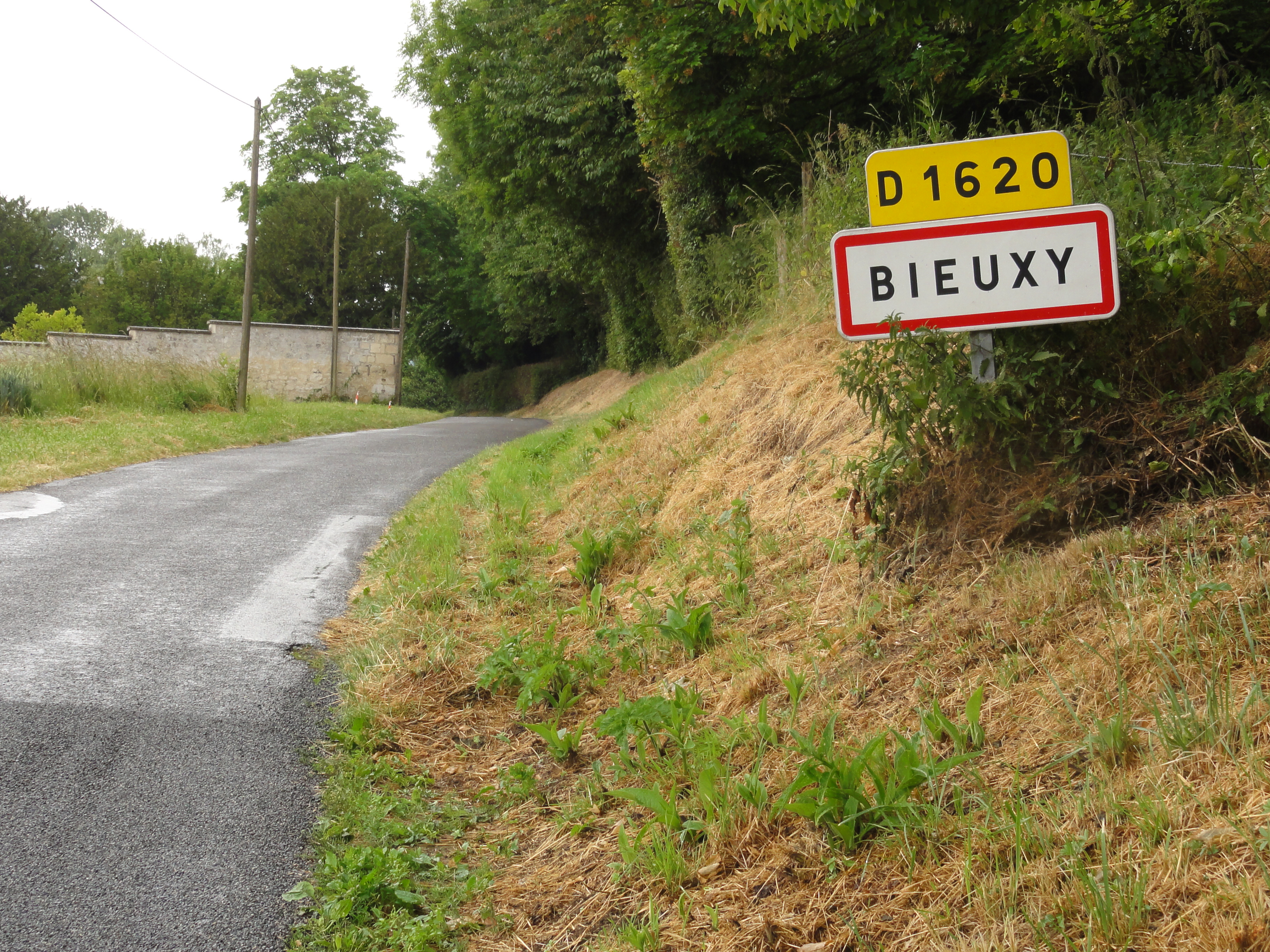 Bieuxy (Aisne) city limit sign